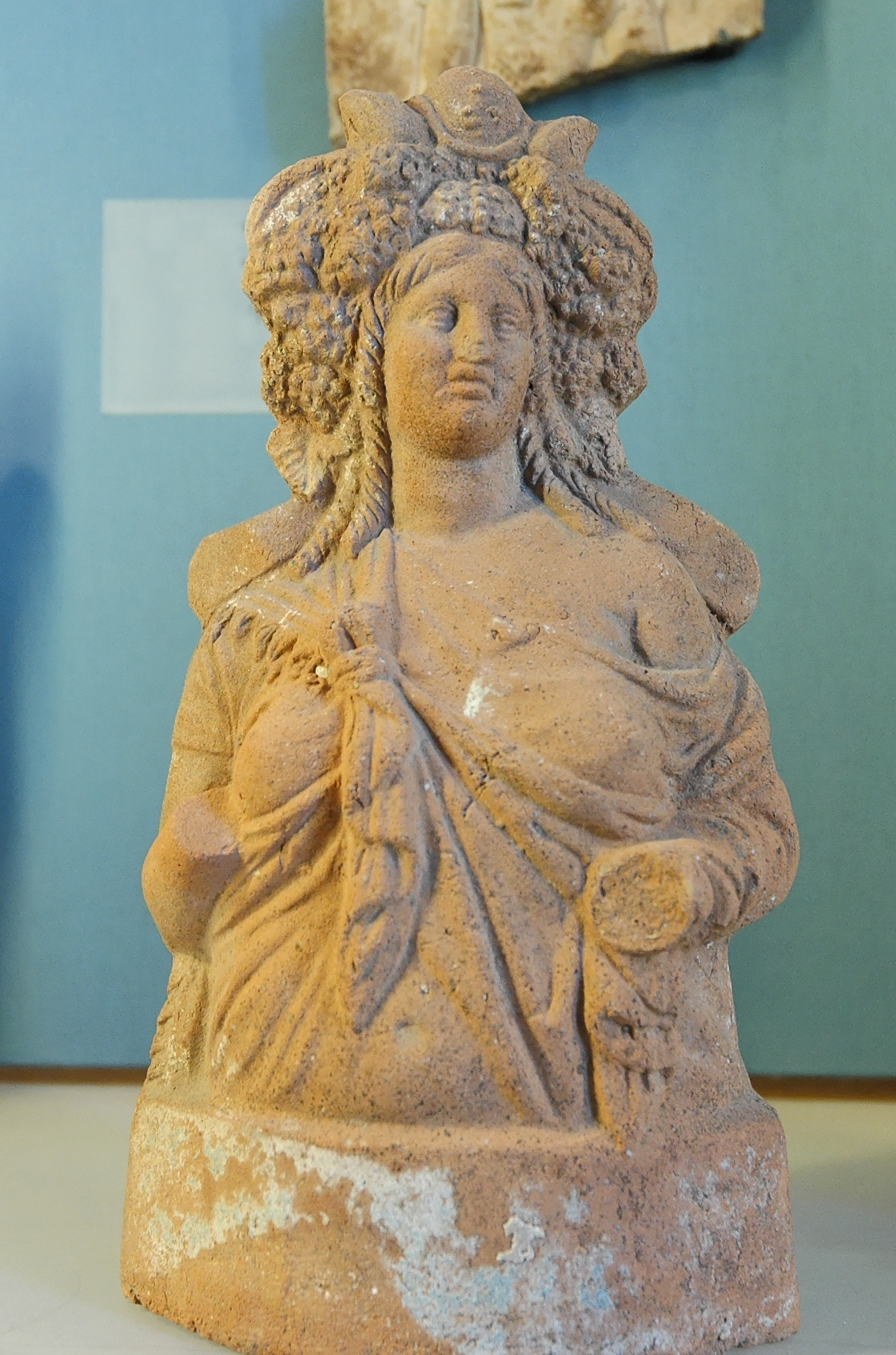 Isis-Aphrodite. Terracotta, Ptolemaic Egypt.